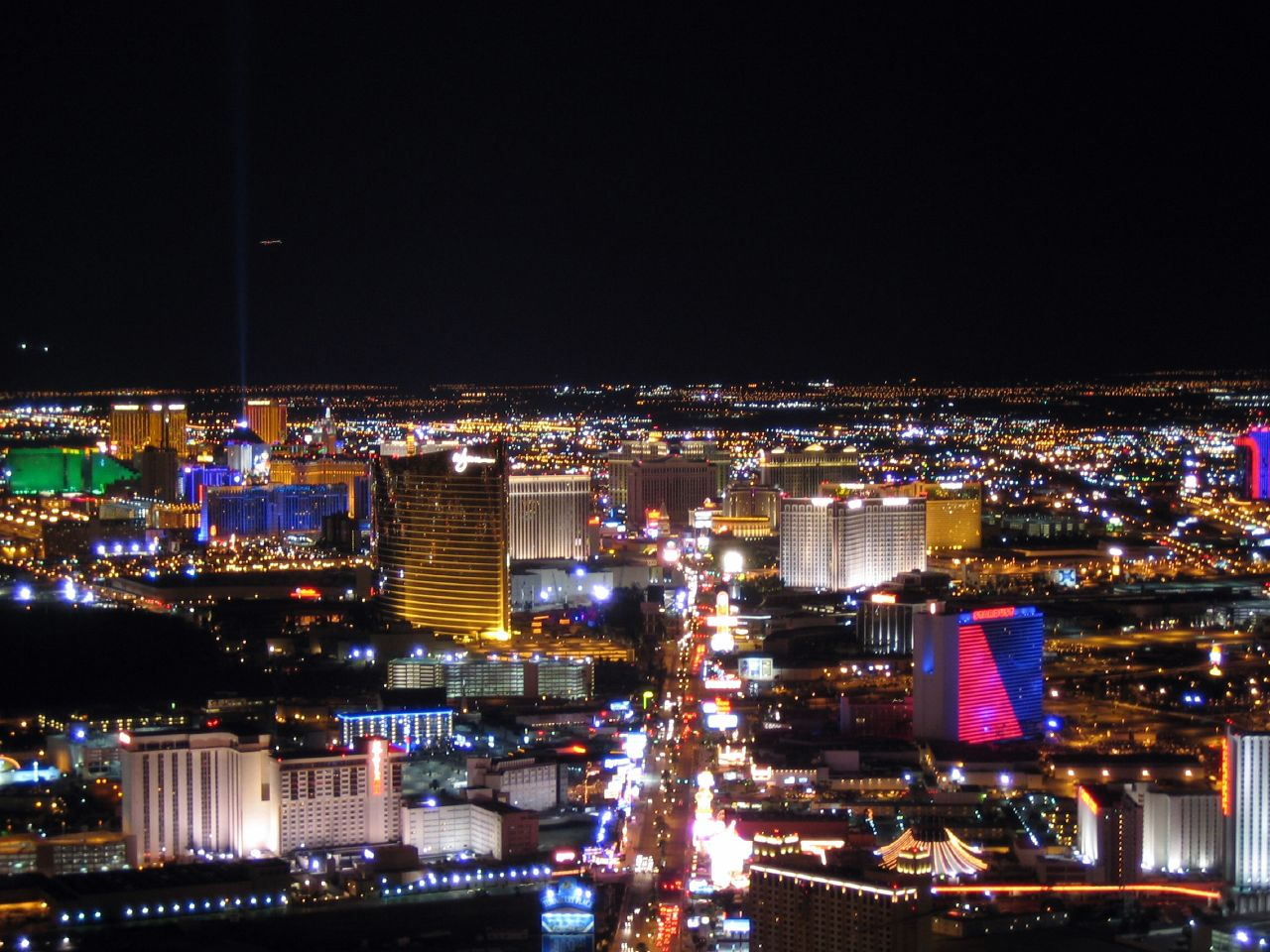 Taken from atop the Stratosphere Tower.